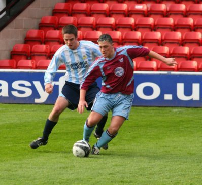 Liam Kay